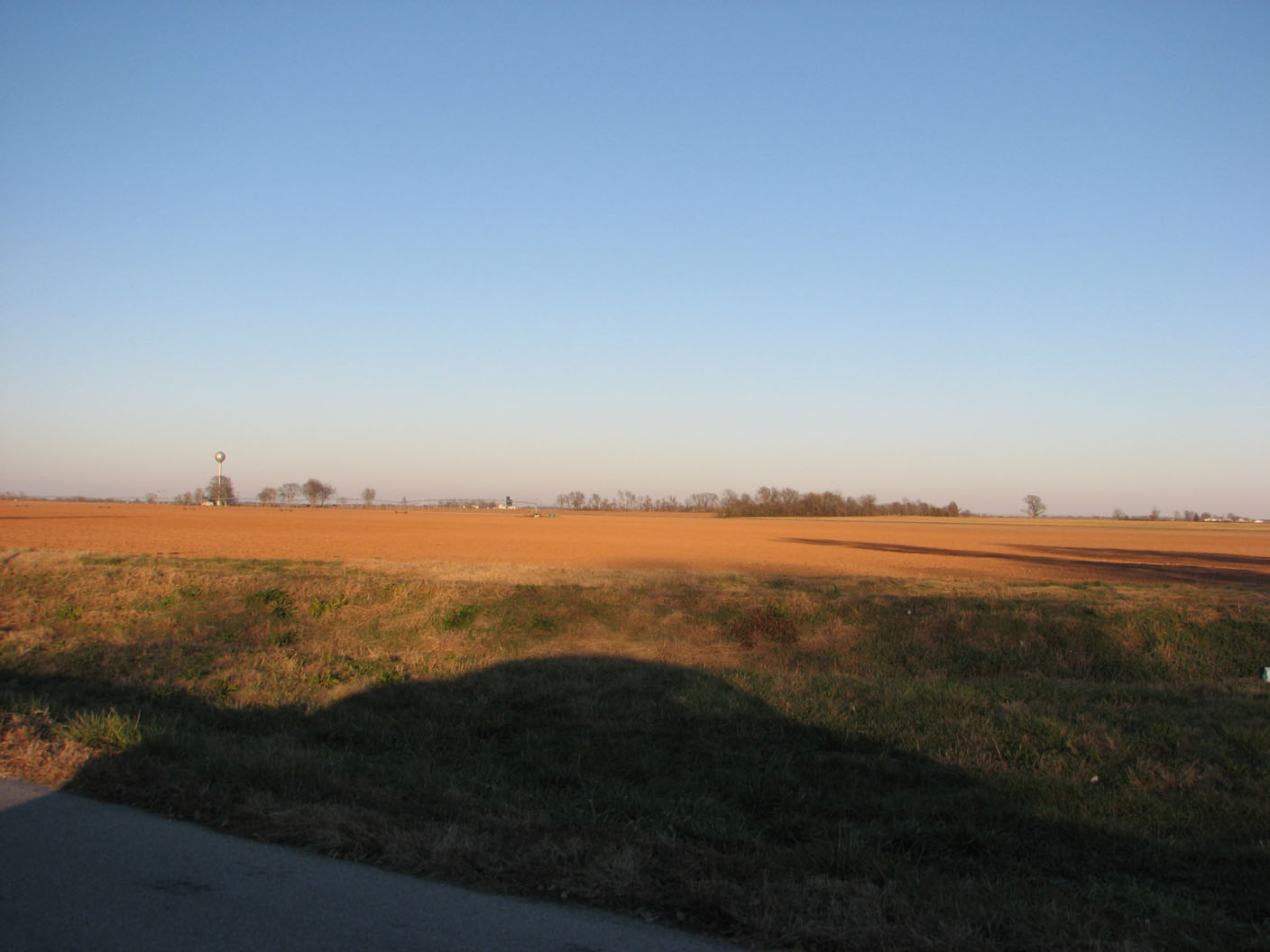 Photograph of one of the many fields in and surrounding Stark City, taken by RebelAt, in November, 2006.